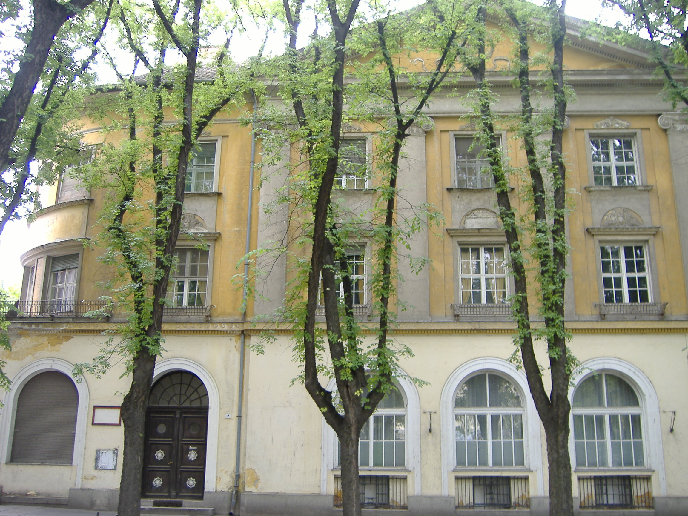 The building of the Kállay Éva Hostel, originally used as a bank office.